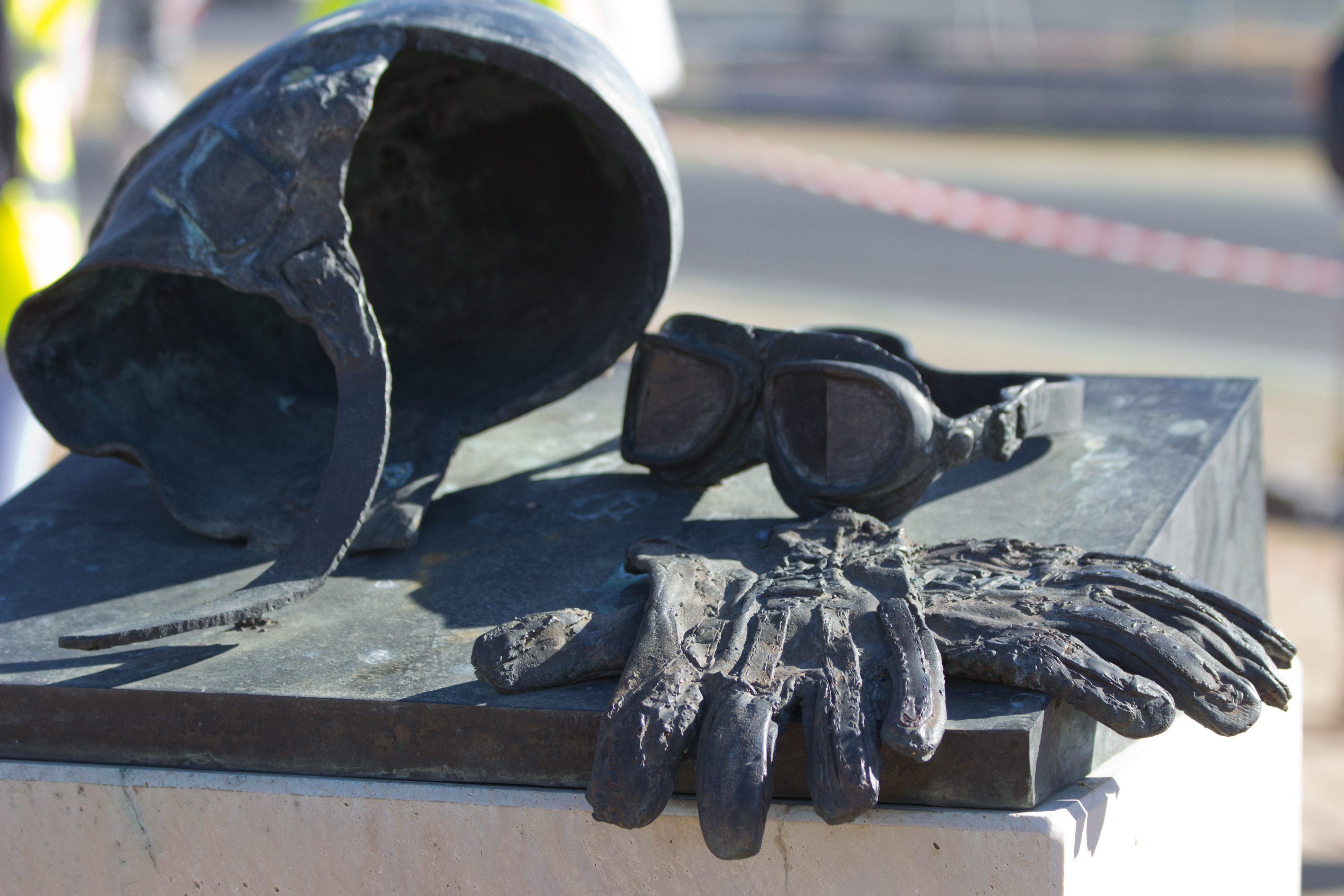 Monument to Ángel Nieto in Jarama Circuit.